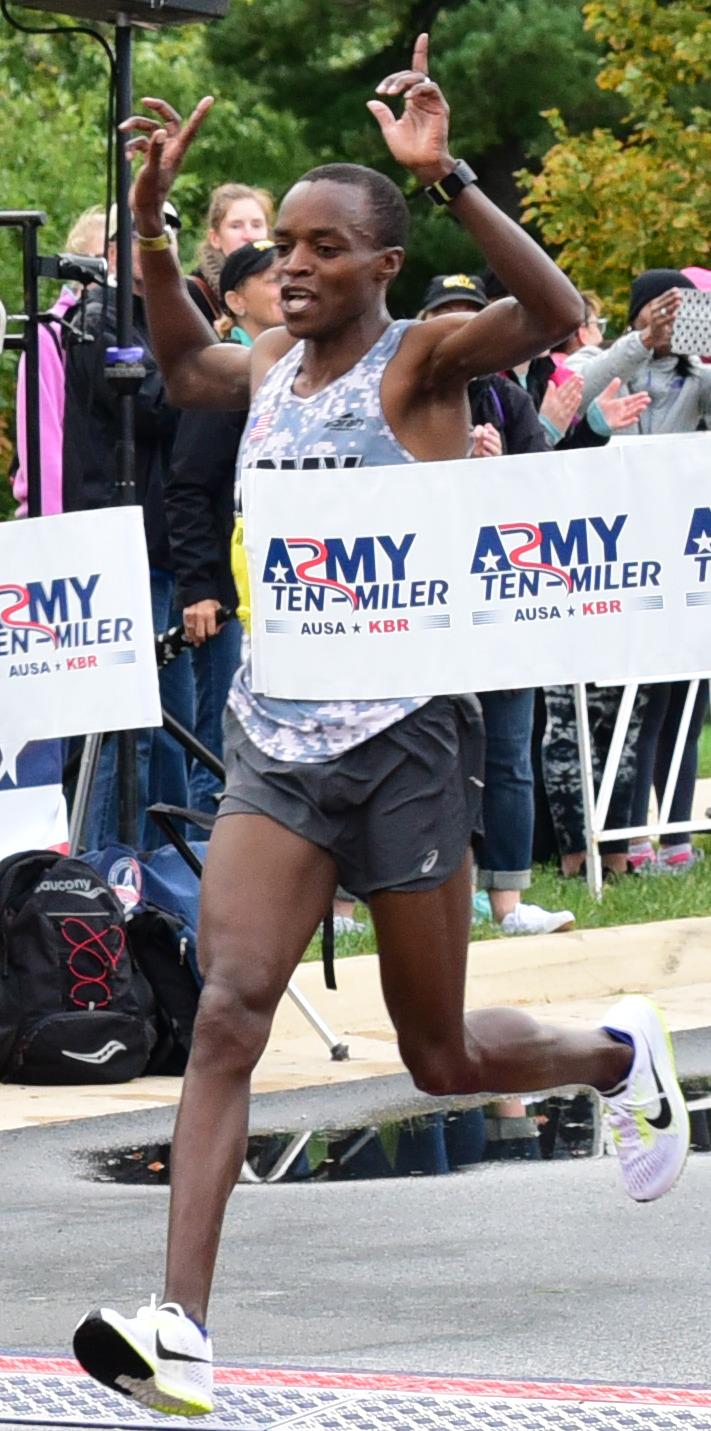 Marathon runner Sgt. Augustus Maiyo, of Colorado Springs, Colorado, places first in the male’s overall and male’s military categories at the Army Ten-Miler, Oct. 9, 2016, in Arlington, Va. (U.S. Army photo by Jessica Ryan)